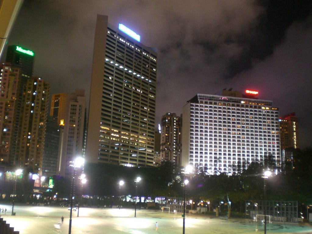 柏寧酒店(Park Lane Hotel)， 皇室大廈 (Windsor House)，原稱 溫莎公爵大廈，又名 紐約人壽大樓. 維多利亞公園 Author= RoxRox